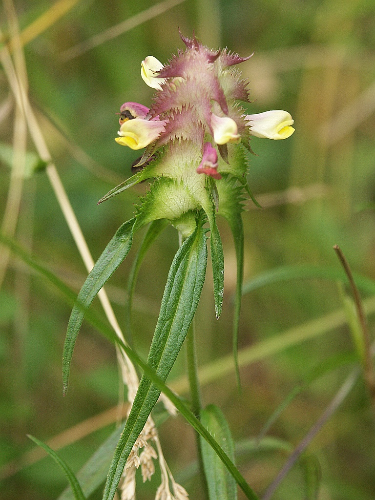 Melampyrum cristatum, northern Baden-Württemberg, Germany